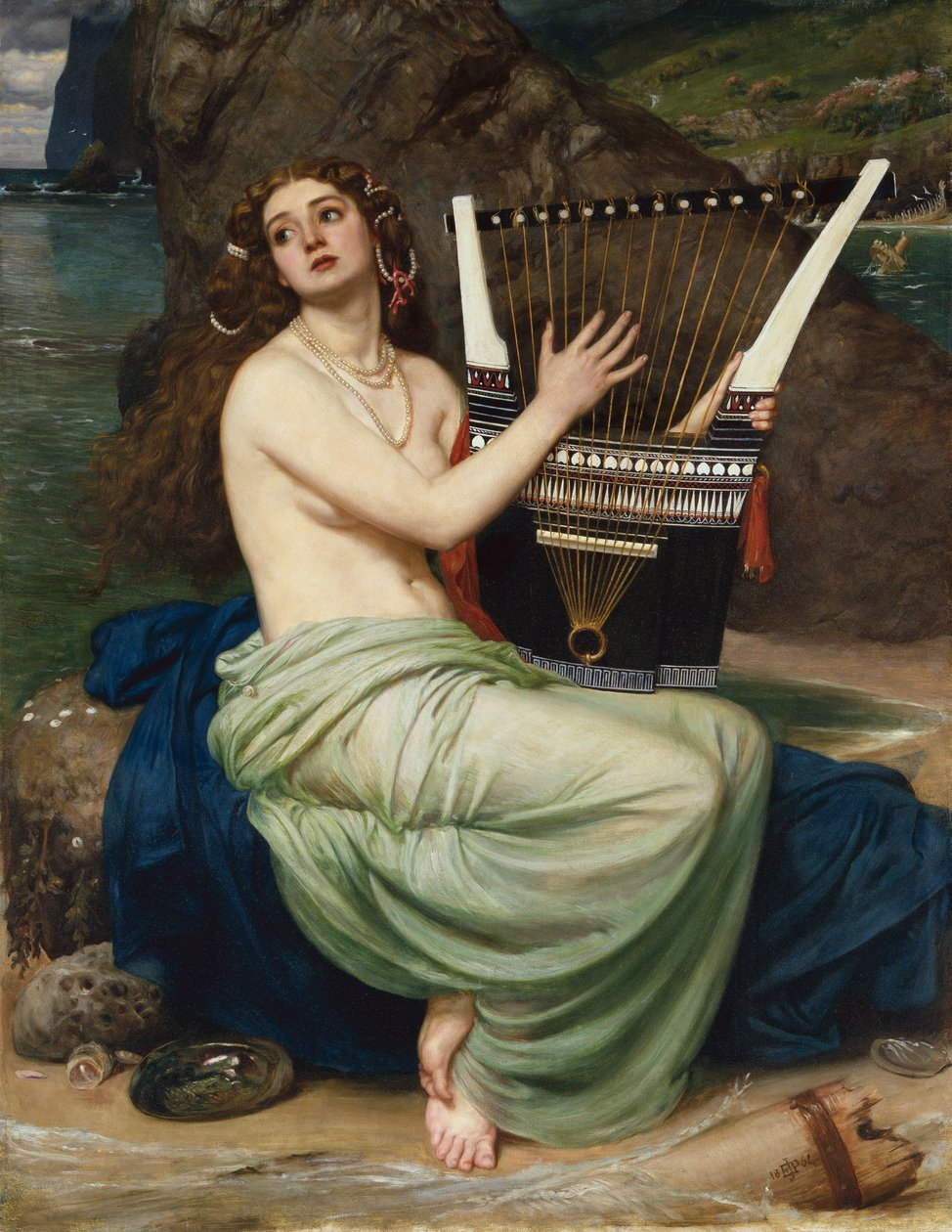 The Siren